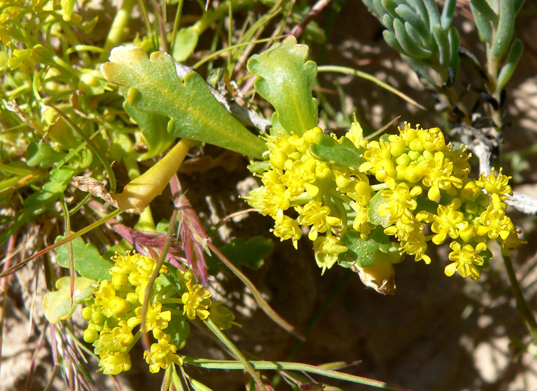 Photo of Lepidium flavum in Chicago Valley, California